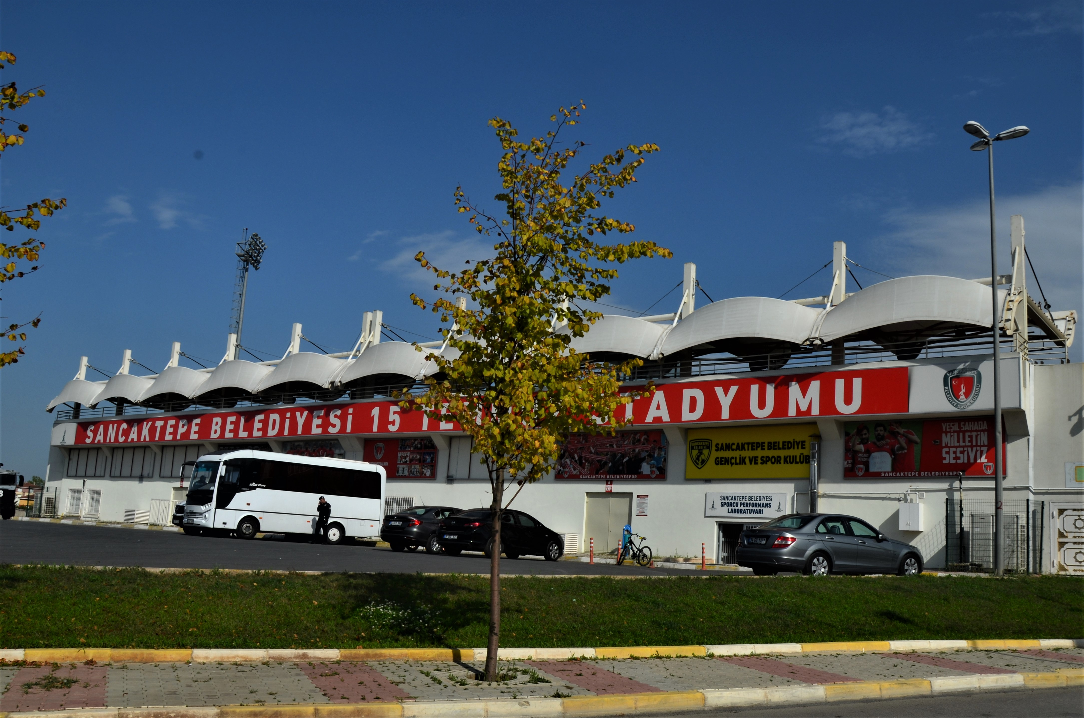 Sancaktepe Belediyesi 15 Temmuz Stadium in Sancaktepe district of Istanbul, Turkey